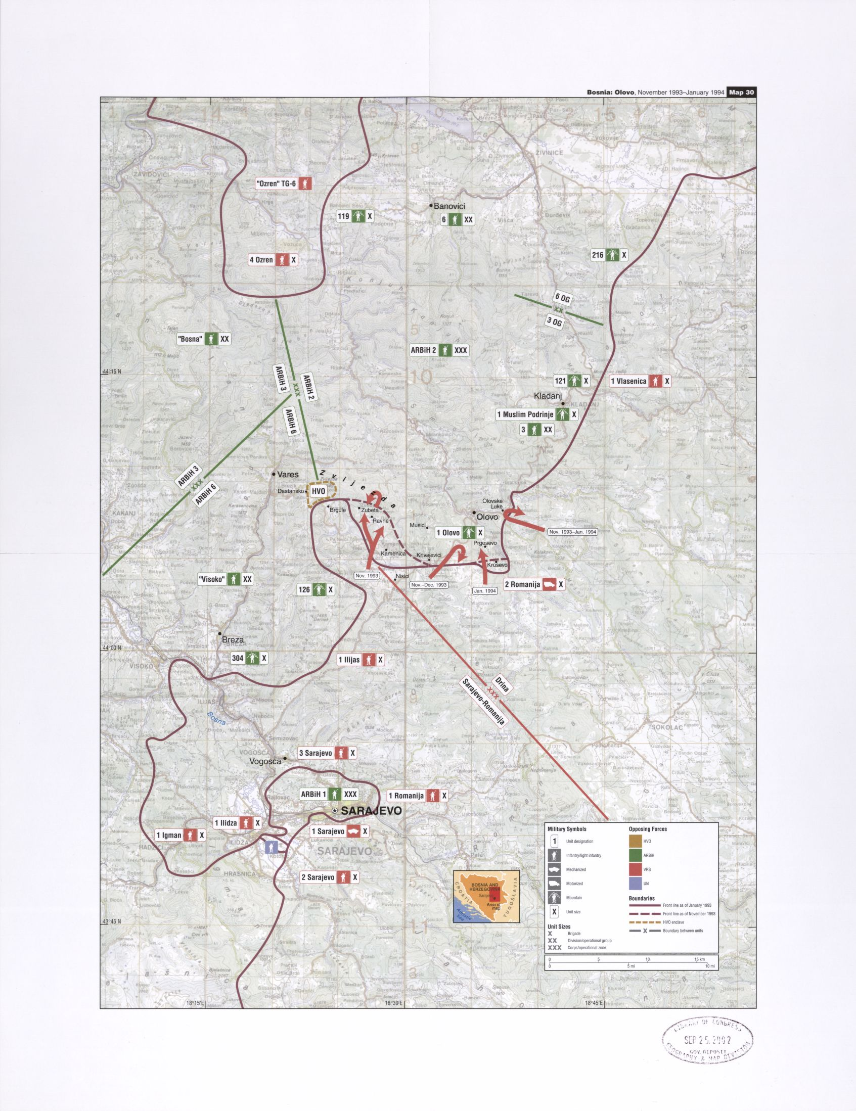 Olovo, November 1993-January 1994